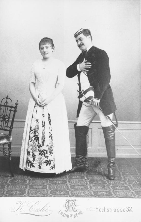 German actors Thessa Klinkhammer and Eugen Staegemann